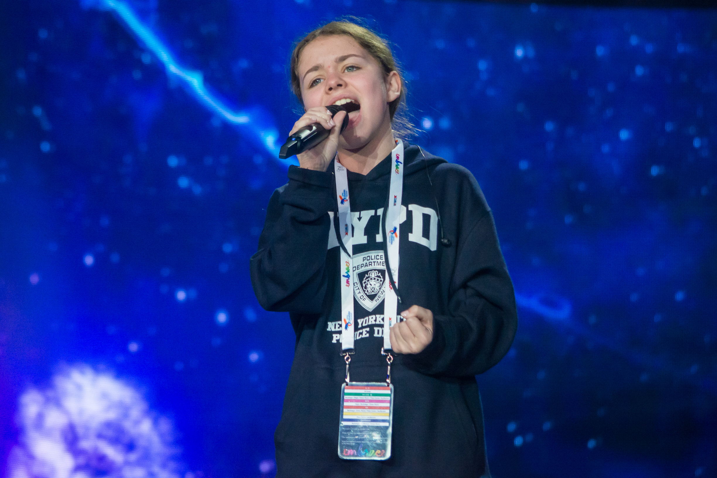 JESC 2016 participant: Olivia Wieczorek (Poland)